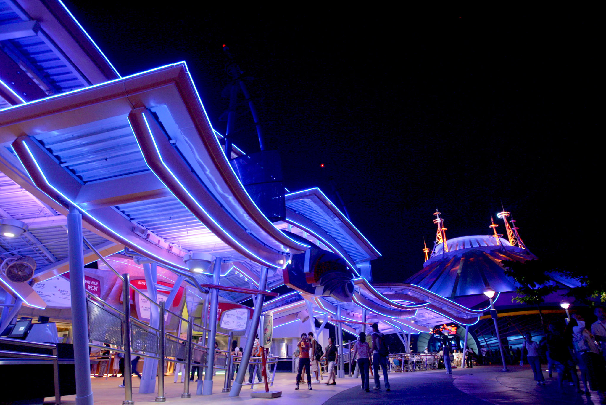 Disneyland Hong Kong Space Mountain.